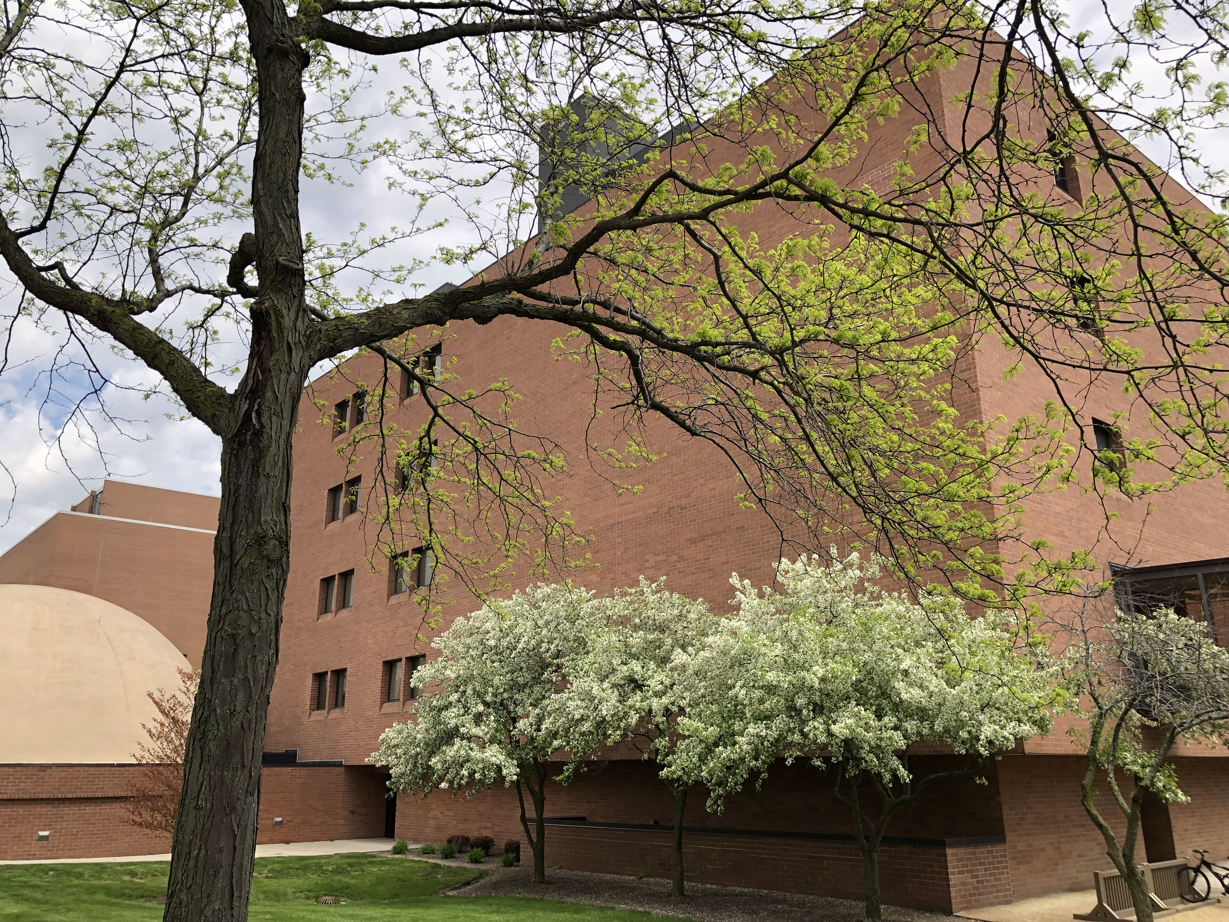 Exterior of the Physical Sciences Laboratory Building